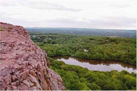 Summit of Ragged Mountain (Connecticut). Traprock mountain. View west. 2001. Photo by Paul W. Gagnon. For traprock mountain of New England. For Ragged Mountain.